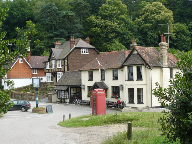 Coldharbour, Surrey. A view of the centre of the village, taken from the steep track which runs up to Leith Hill. The telephone box in the foreground is possibly at a higher altitude than any other in the south-east of England.